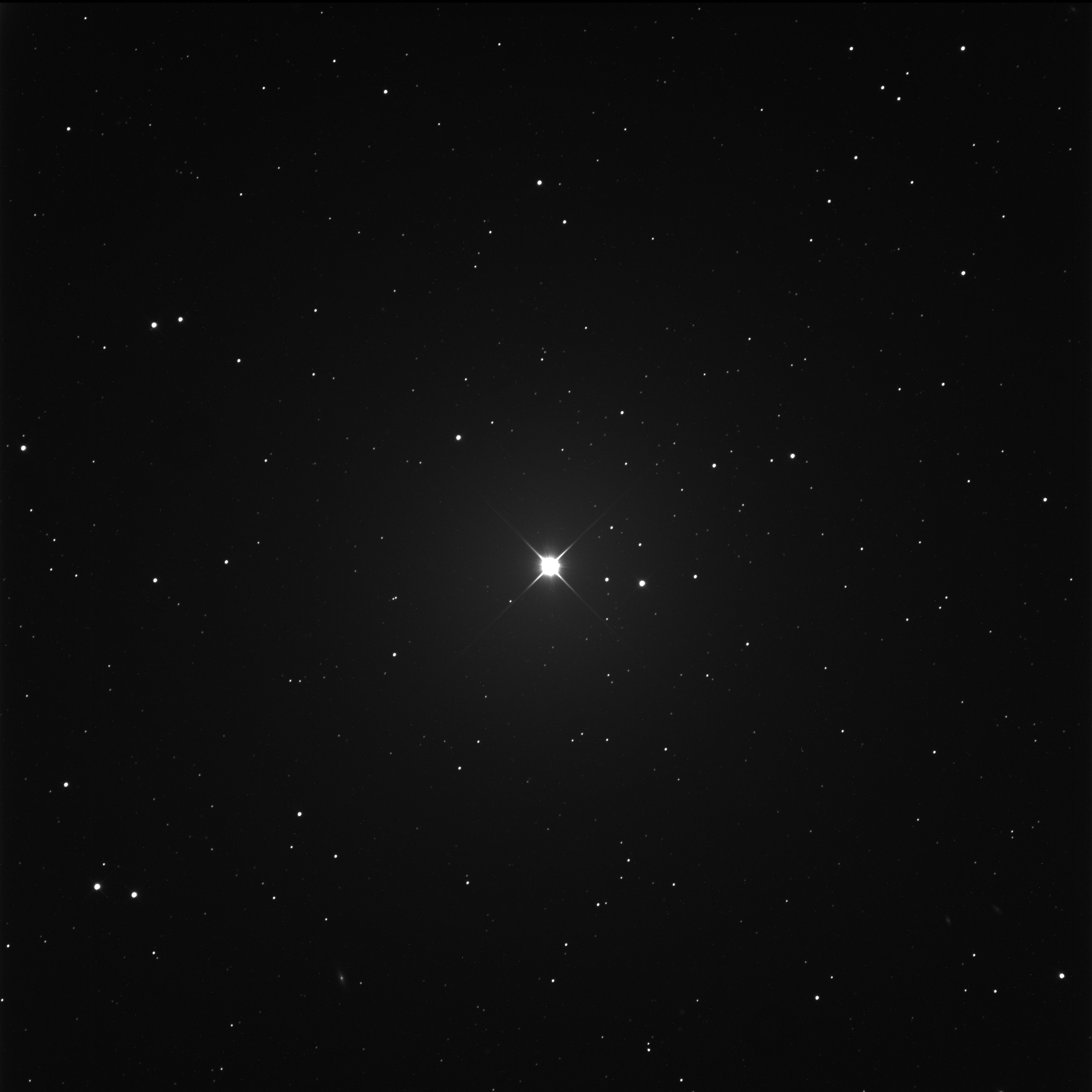 5 minute exposure of the sun-like star 61 Virginis with a 12.5" telescope at 2009-12-27 12:30 UT (5:30 Rodeo, NM time). 61 Vir is a G5V class star slightly less massive than the Sun (G2V), located about 27.8 light-years away in the constellation of Virgo. It has an apparent magnitude of 4.74, making it a dim naked eye star under dark skies. This telescope has a field of view of 45.1 arcminutes. This is basically how the Sun would appear from a distance of 30 light-years.